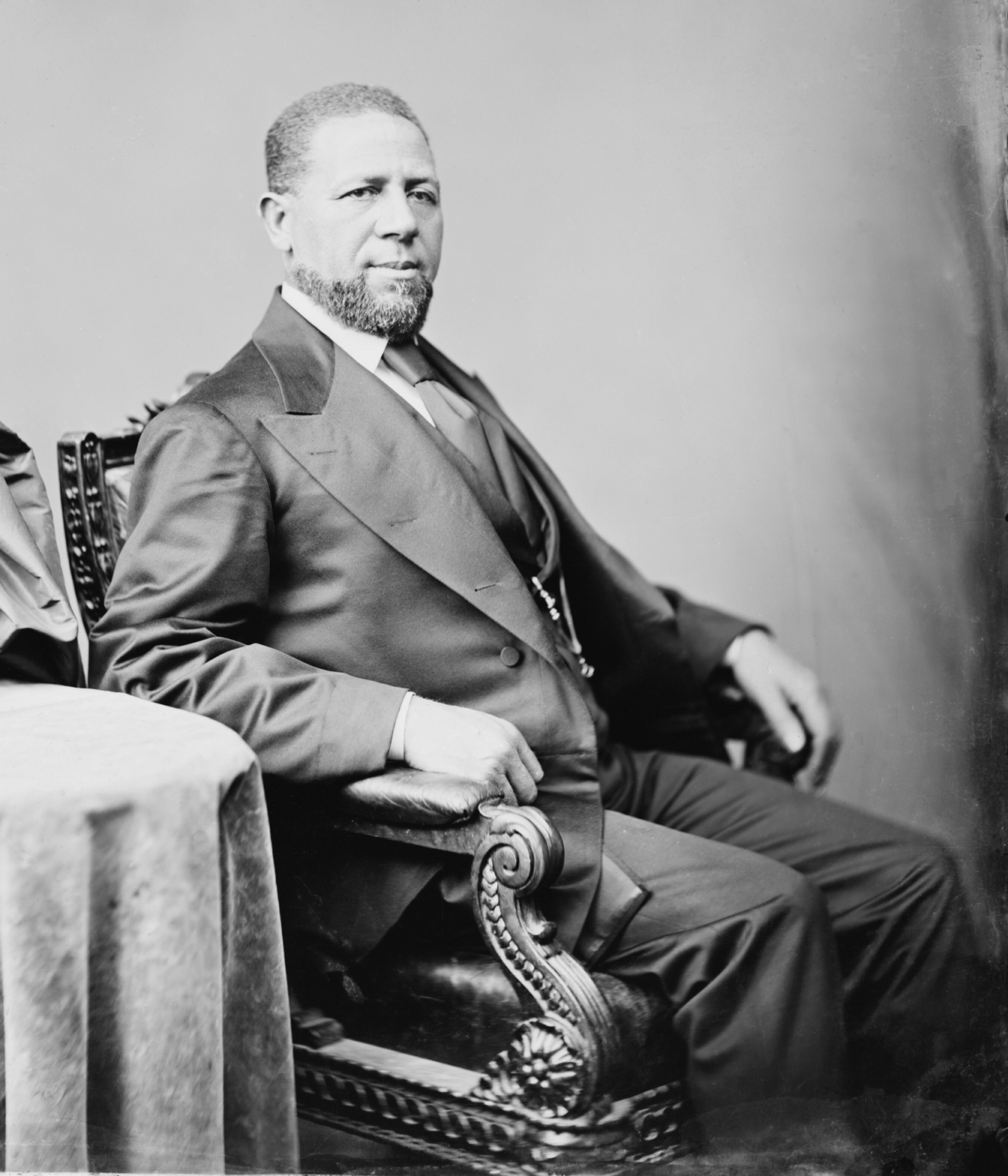 U.S. Senator Hiram Rhodes Revels, the first African-American in the Congress. Library of Congress description: "Hiram R. Revels of Miss."